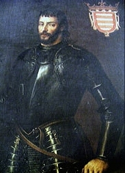 Juan Arias de Saavedra. First Lord of Castellar. Spanish Paint. S. XVII.